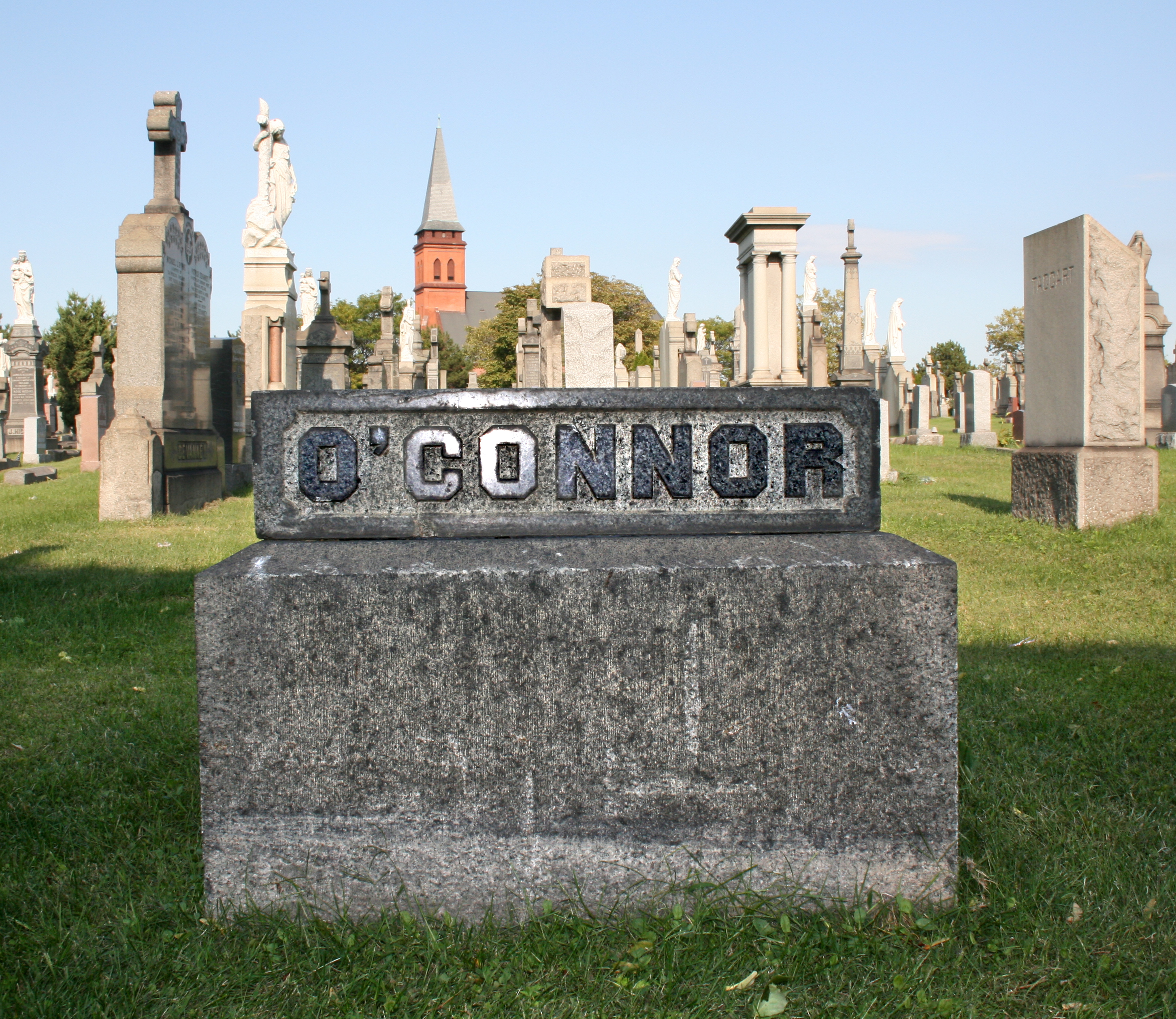 This photo is of Wikis Take Manhattan goal code M21, Una O'Connor.